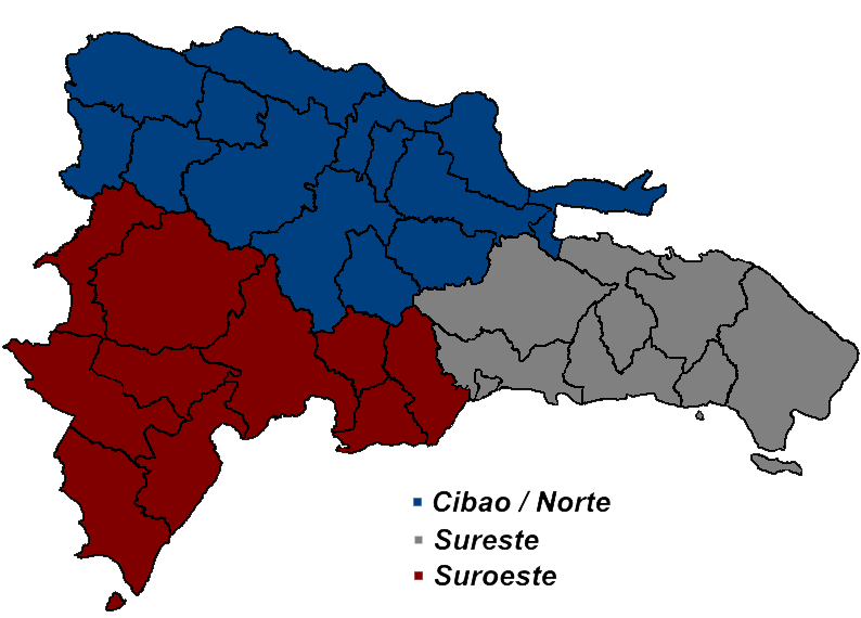 Map of Geographic Regions of the Dominican Republic